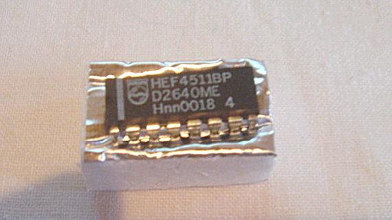 A Philips HEF4511 IC.